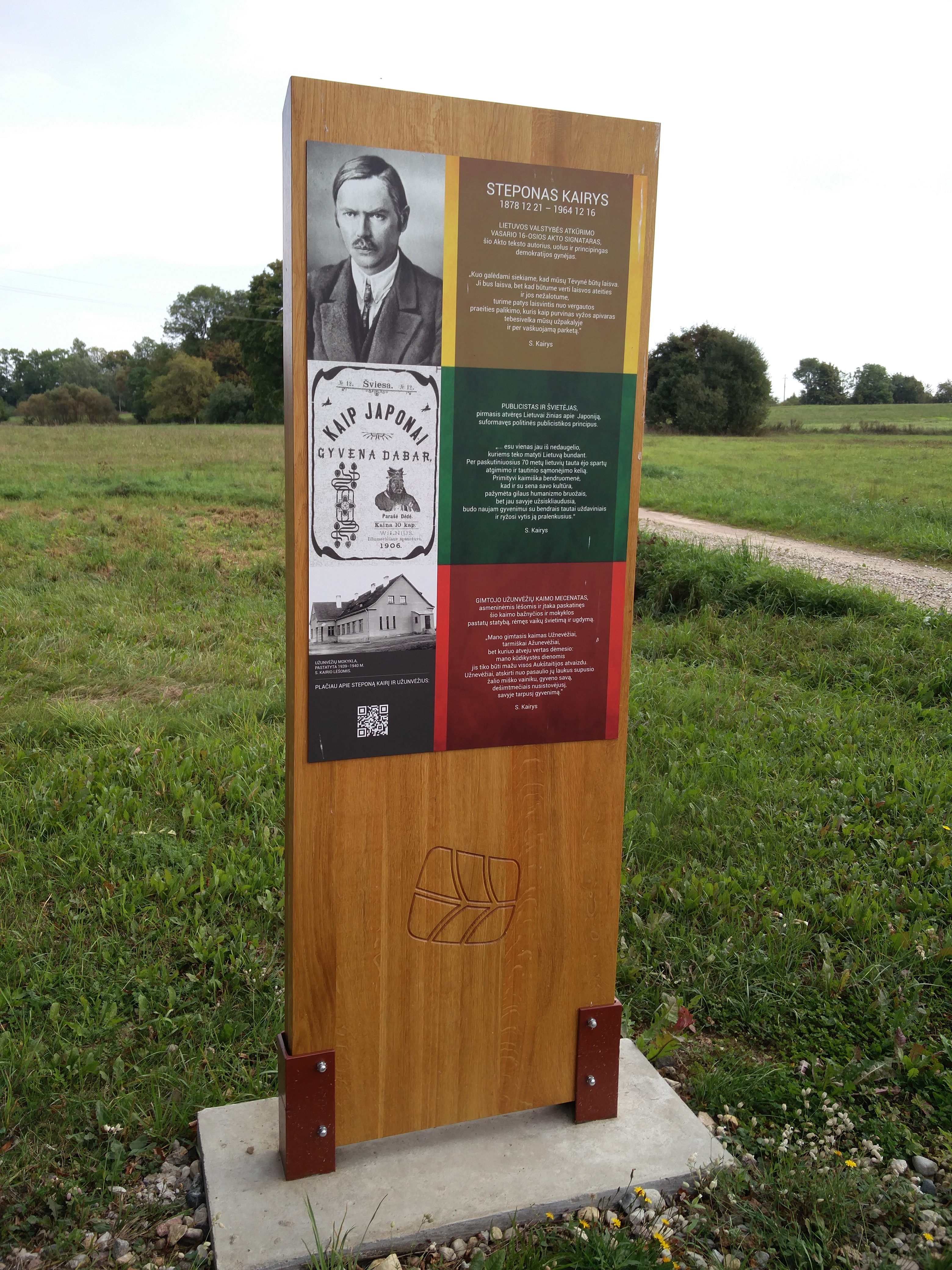 Information board about Steponas Kairys in Užunvėžiai village, Lithuania.